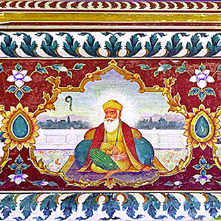 Guru Nanak Dev Ji (15 April 1469 – 22 September 1539) was the founder of the religion of Sikhism and the first of the eleven Sikh Gurus, the eleventh being the living Guru, Guru Granth Sahib.